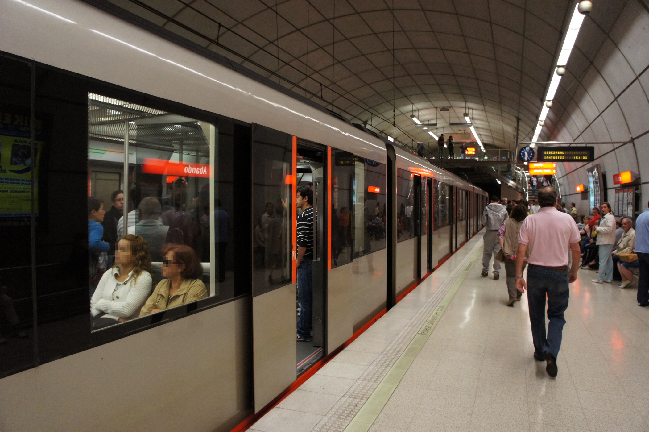 Abando metro station, Bilbao Metro, Basque Country, Spain